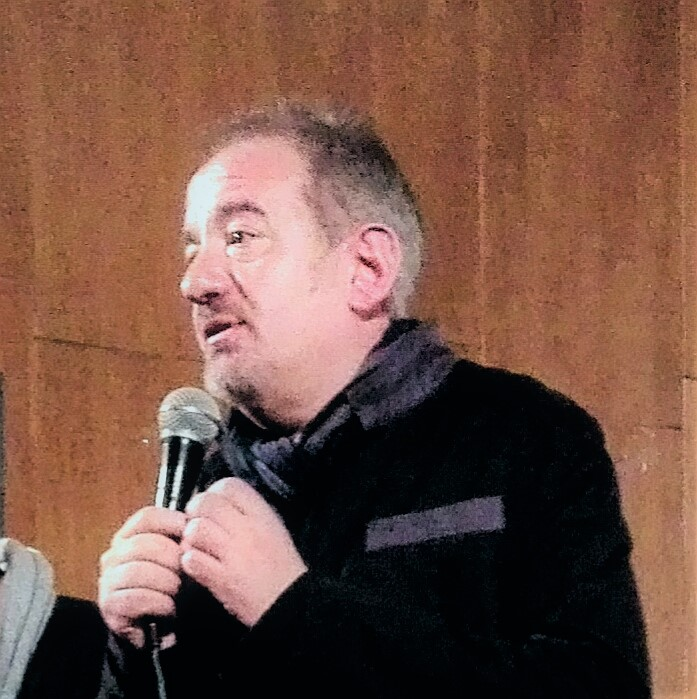 Stefan Komandarev, Bulgarian film director, at the closing session of Sofia Film Fest 2018